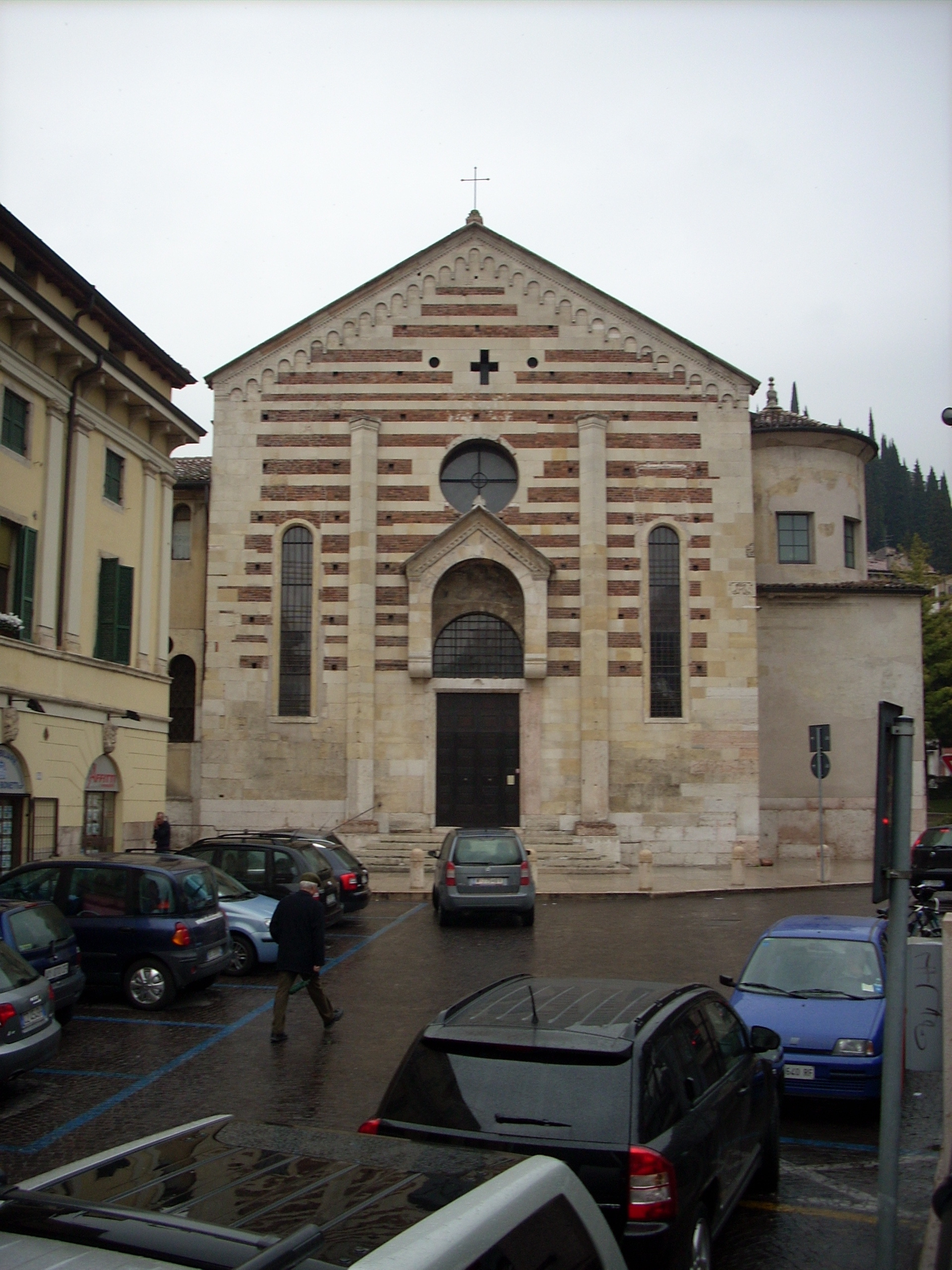 Church of St Stephen in Verona, facade